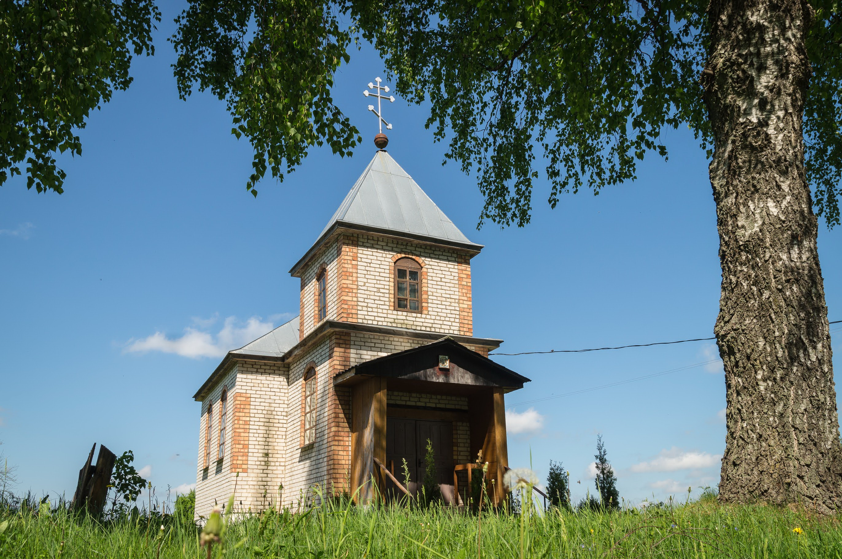 Bubny. Church of the Holy Virgin